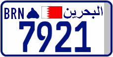 License plate from Bahrain